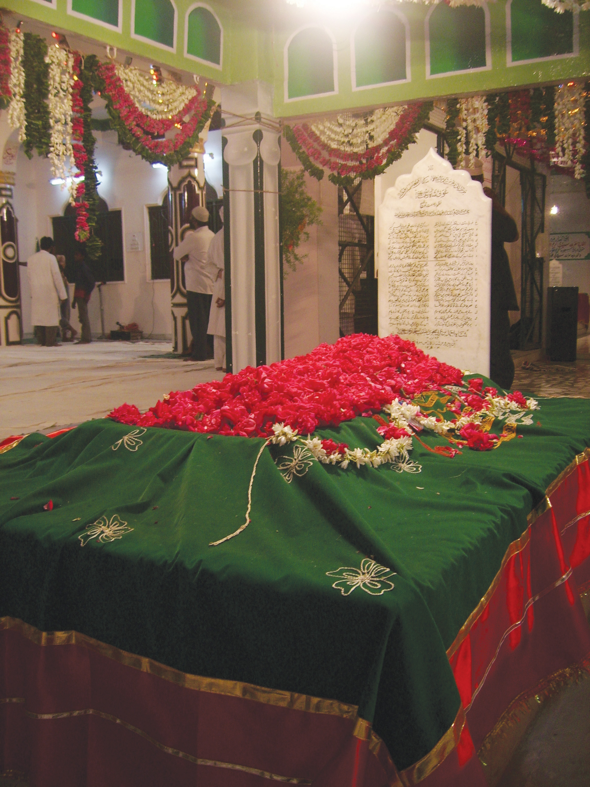 Alhaj Hazrath Peer Ghousi Shah Mazar Shareef (Grave) Photo